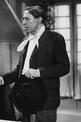 Marino Seré-actor argentino